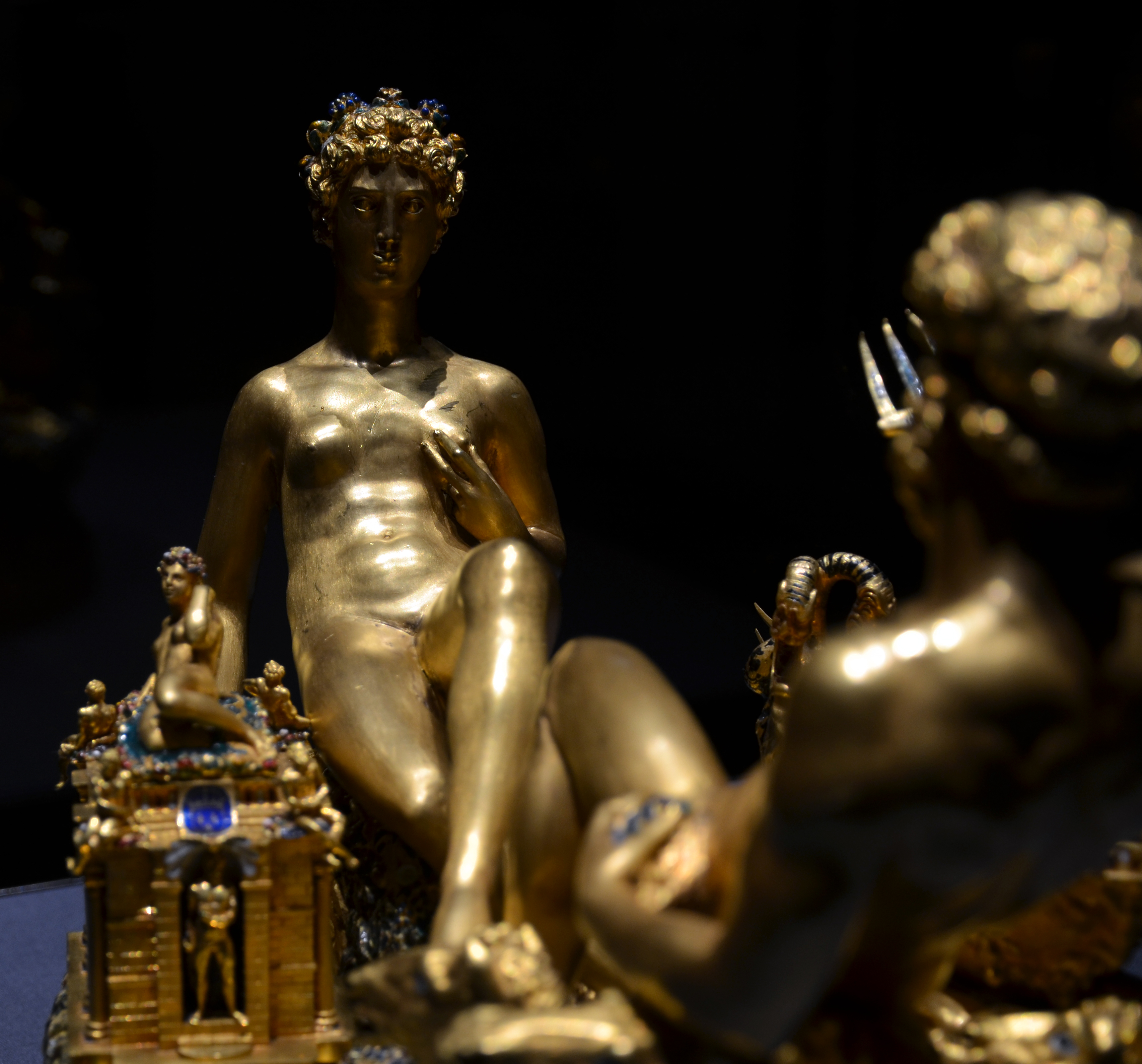 Detail of the "saliera" ( saltcellar in Italian ) made in 1543 for Francis I of France by Benvenuto Cellini ( 1500-1571). Part-enameled gold. Now in the Kunsthistorisches Museum in Vienna.